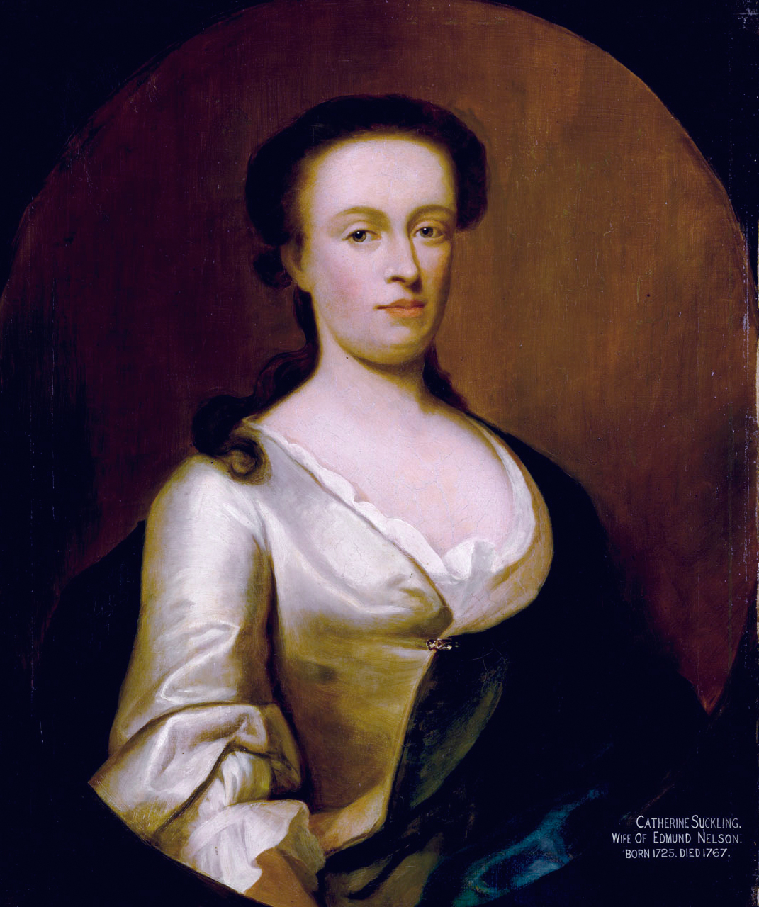 Portrait of Catherine Suckling (1725-1767). Copy of a portrait by John Theodore Heins of Nelson's mother when she was 18, just before she met and married the Reverend Edmund Nelson, rector of a Norfolk congregation. A woman of firm character, she bore eleven children. She died aged 42 when her son Horatio was nine, leaving him and his two elder and two younger brothers, and three sisters, to be brought up by their widowed father.